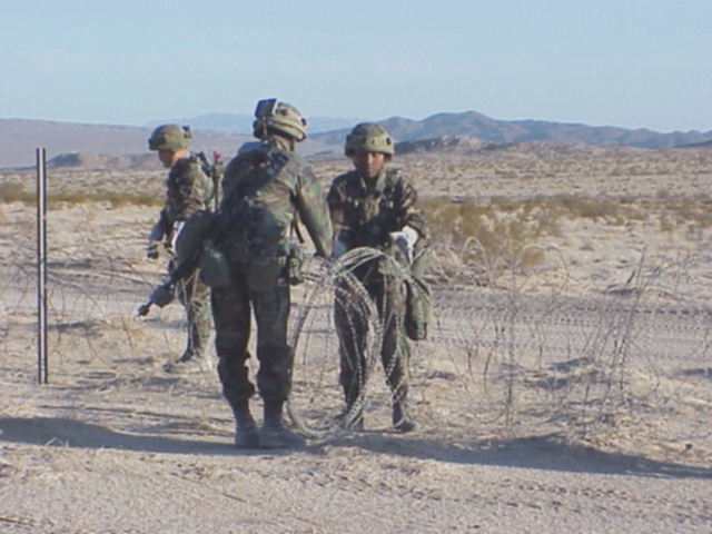 US soldiers laying concertina wire Source: from